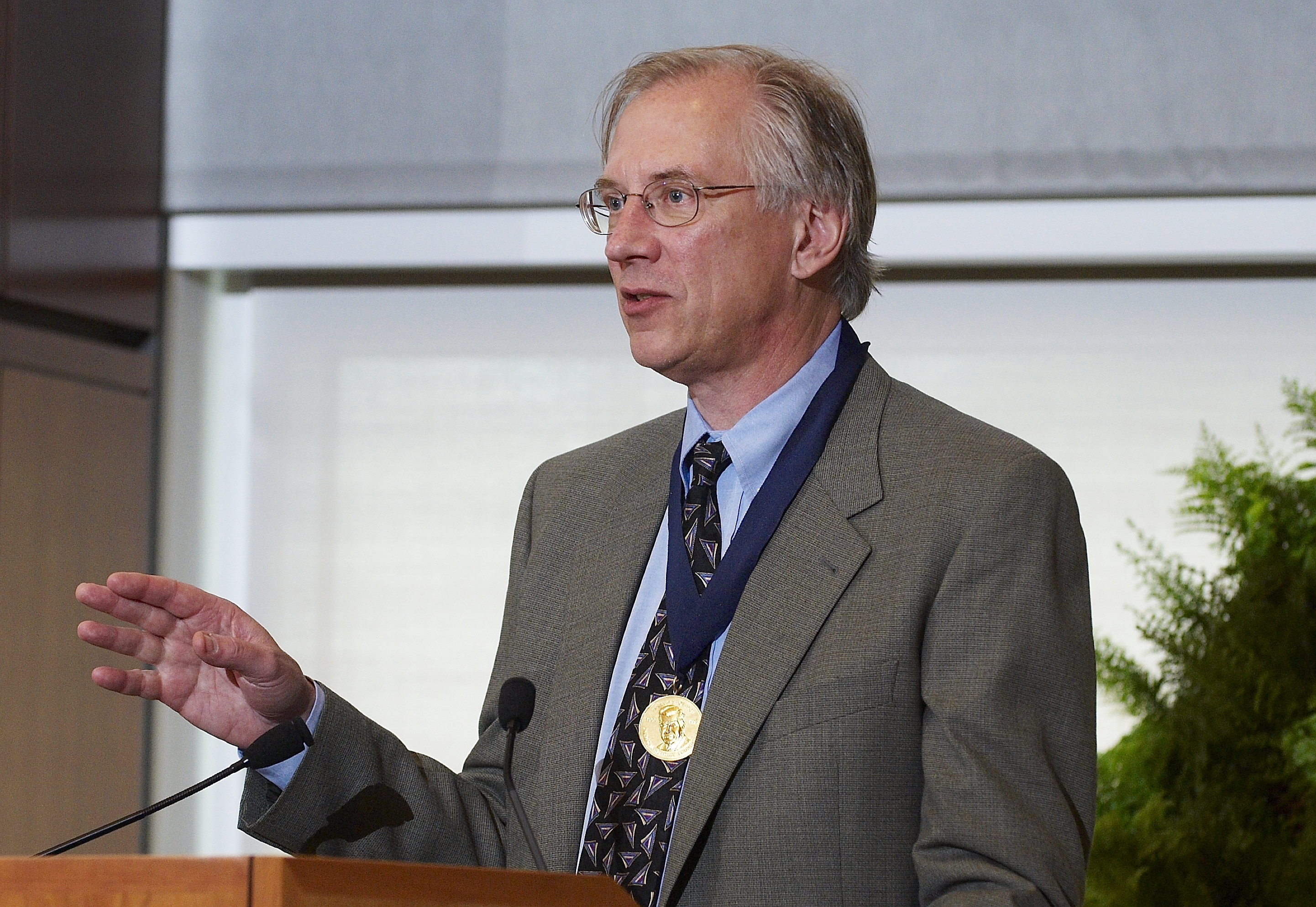 Photograph of chemist Thomas Robert Cech, winner of the Othmer Gold Medal, awarded 17 May 2007, at the Chemical Heritage Foundation.